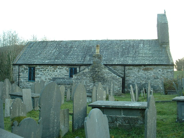 St Beuno's Church, Penmorfa A sign in the porch states that this lonely church has been adopted by "The Friends of Friendless Churches", which I find quite sad..... Nonetheless, there were two men clearing the gutters when I arrived....presumably "Friends".